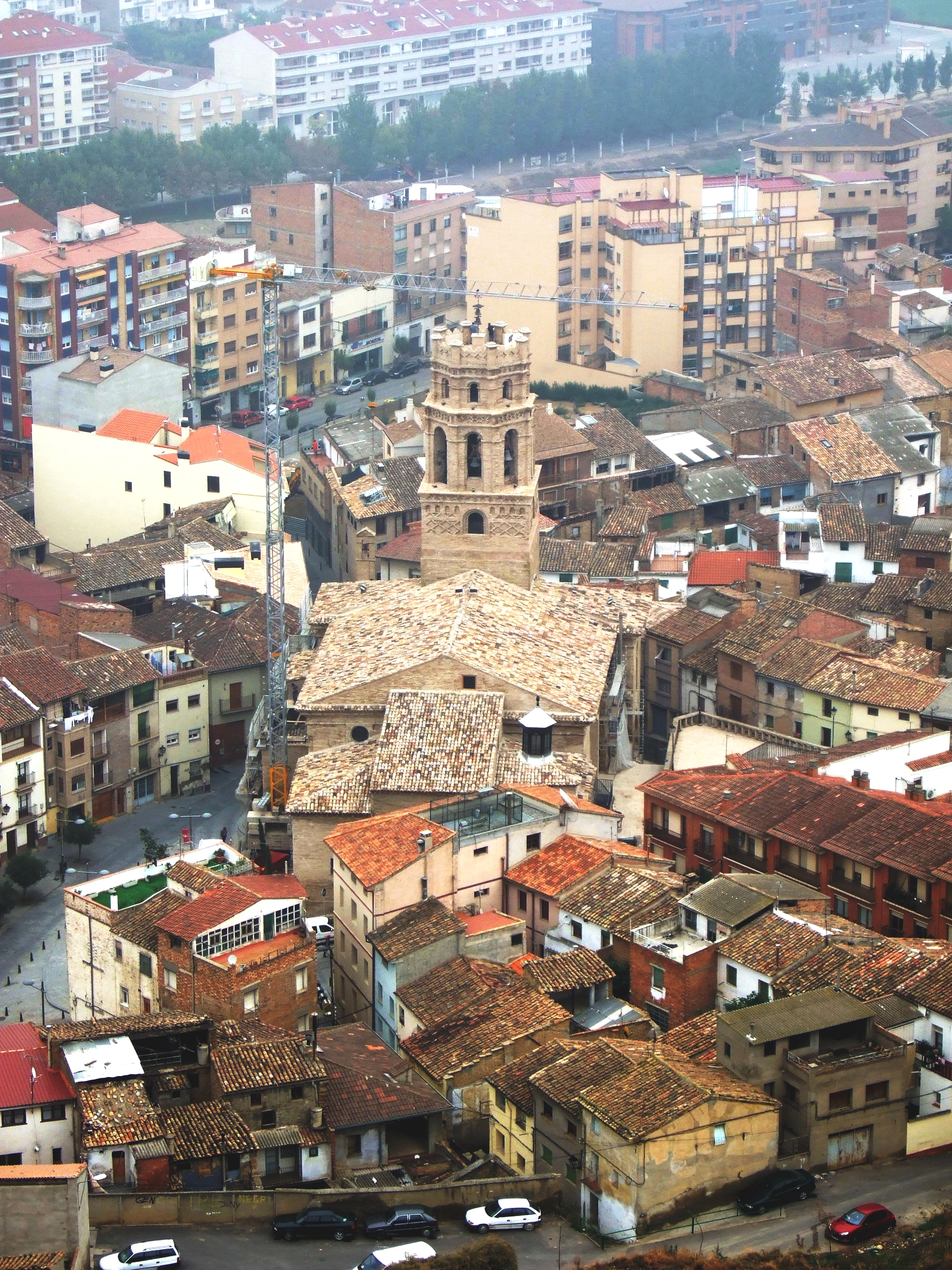 Cathedral of Monzon (Aragon, Spain)